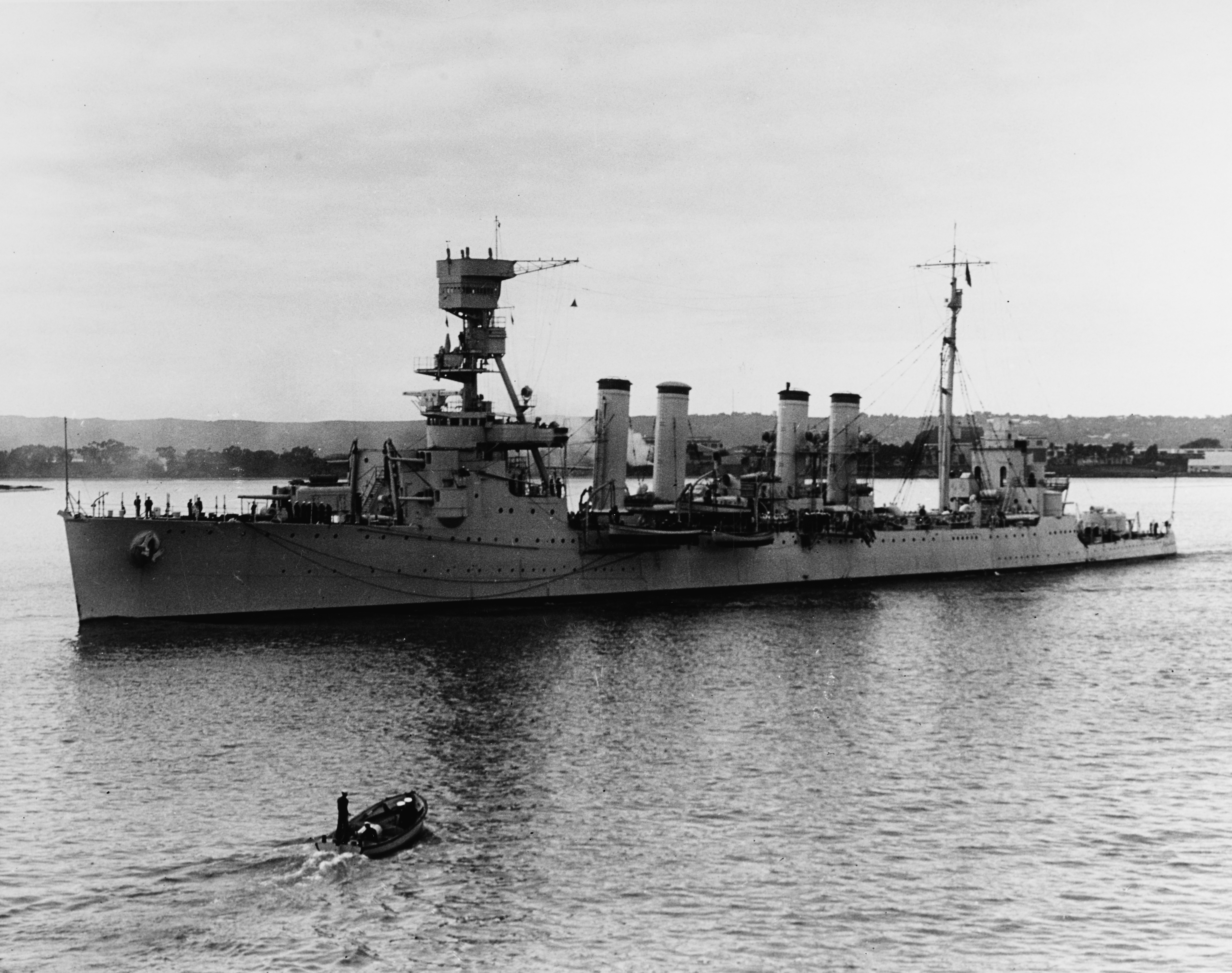 The U.S. Navy light cruiser USS Marblehead (CL-12) underway in San Diego harbor, California (USA), on 10 January 1935.